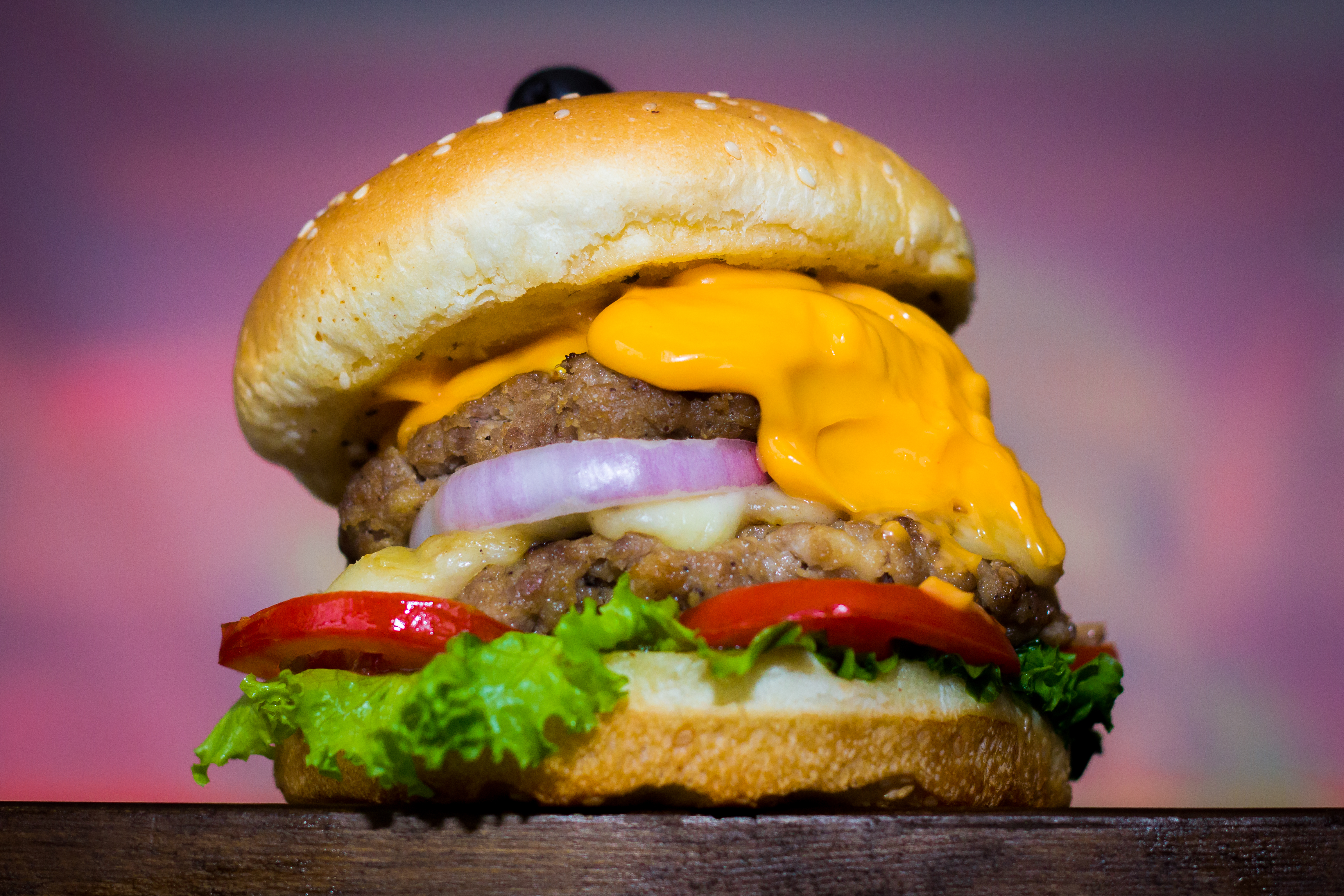 Burger